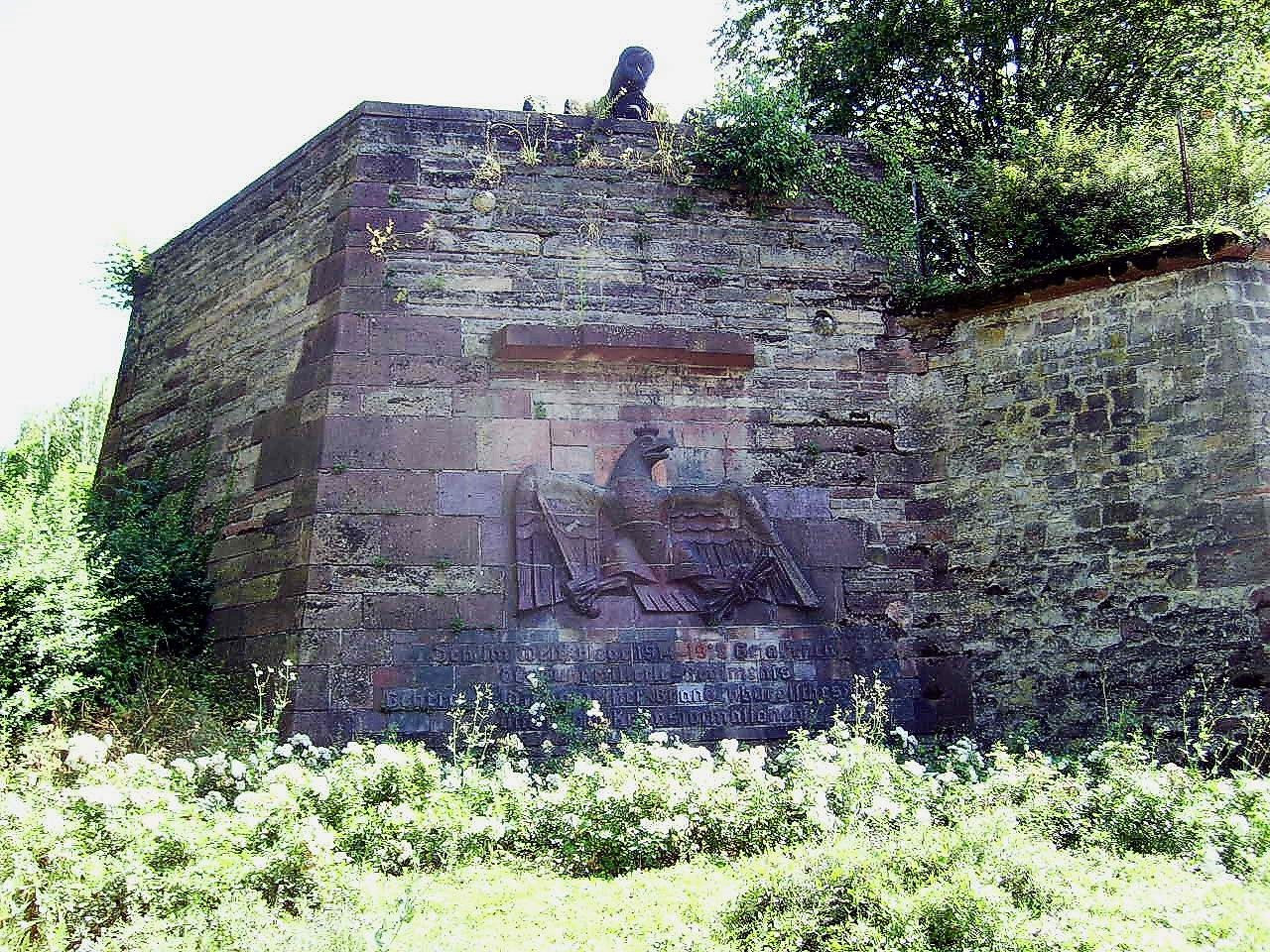 Fort Joseph (Mainz) seen from North-West. Picture taken on 2010 July 18, afternoon.